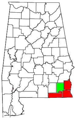 Locator map of the Dothan-Ozark Combined Statistical Area in the southeastern corner of the U.S. state of Alabama. The two components of the CSA are colored separately: Dothan Metropolitan Statistical Area: red Ozark Micropolitan Statistical Area: light green